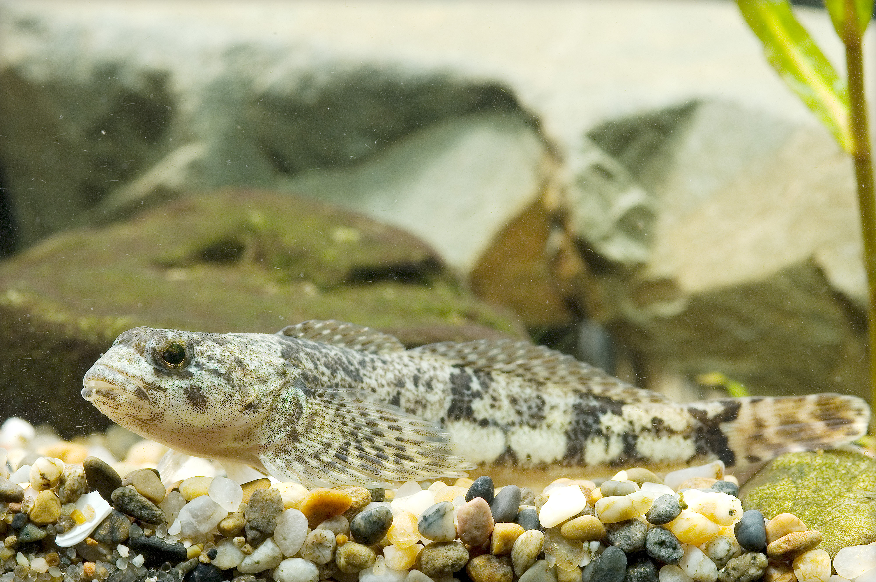 Utsusemikajika, Cottus reinii, from Hamamatsu, Shizuoka, Japan.